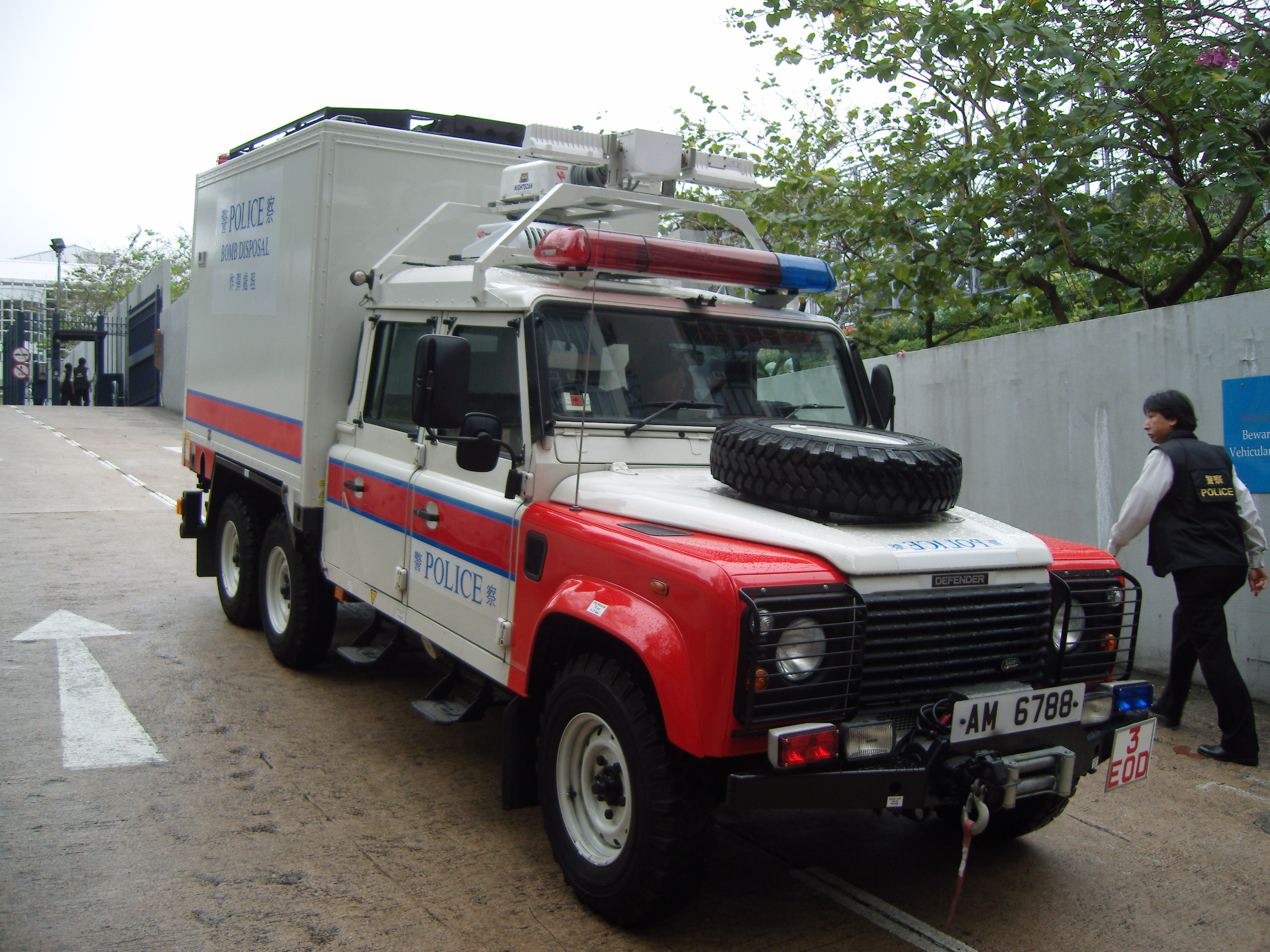 2008 Summer Olympics Torch in Tsim Sha Tsui, Hong Kong.